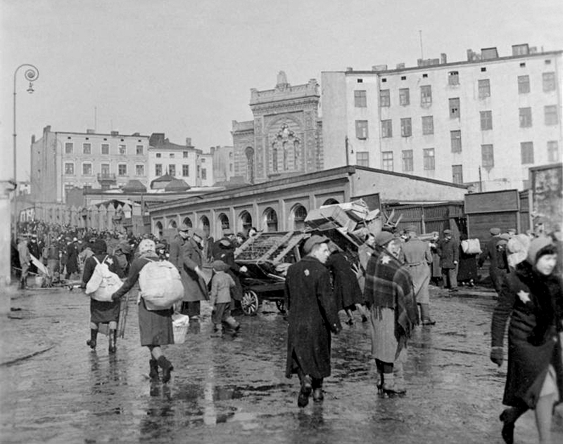 Ghetto Litzmannstadt. Oststraße street (ul. Wschodnia) traffic in previously Litzmannstadt (Lodz city Poland). Old Synagogue in background (actually not exists).